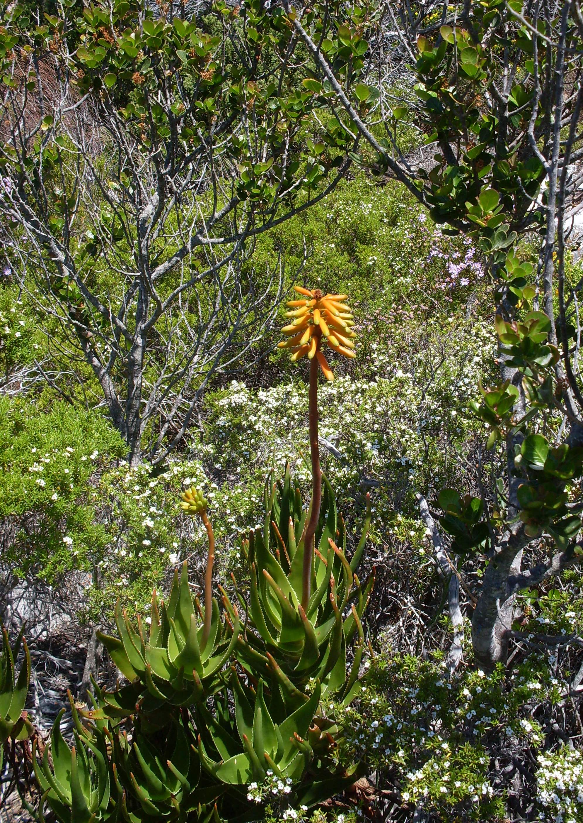 Peninsula Rambling Aloe in Silvermine Mountains. Cape Town. Aloe commixta.